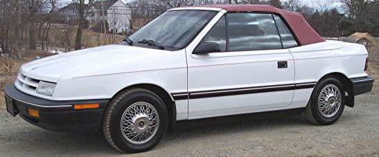 Information:Original author has given permission to allow this image to be released into the public domain